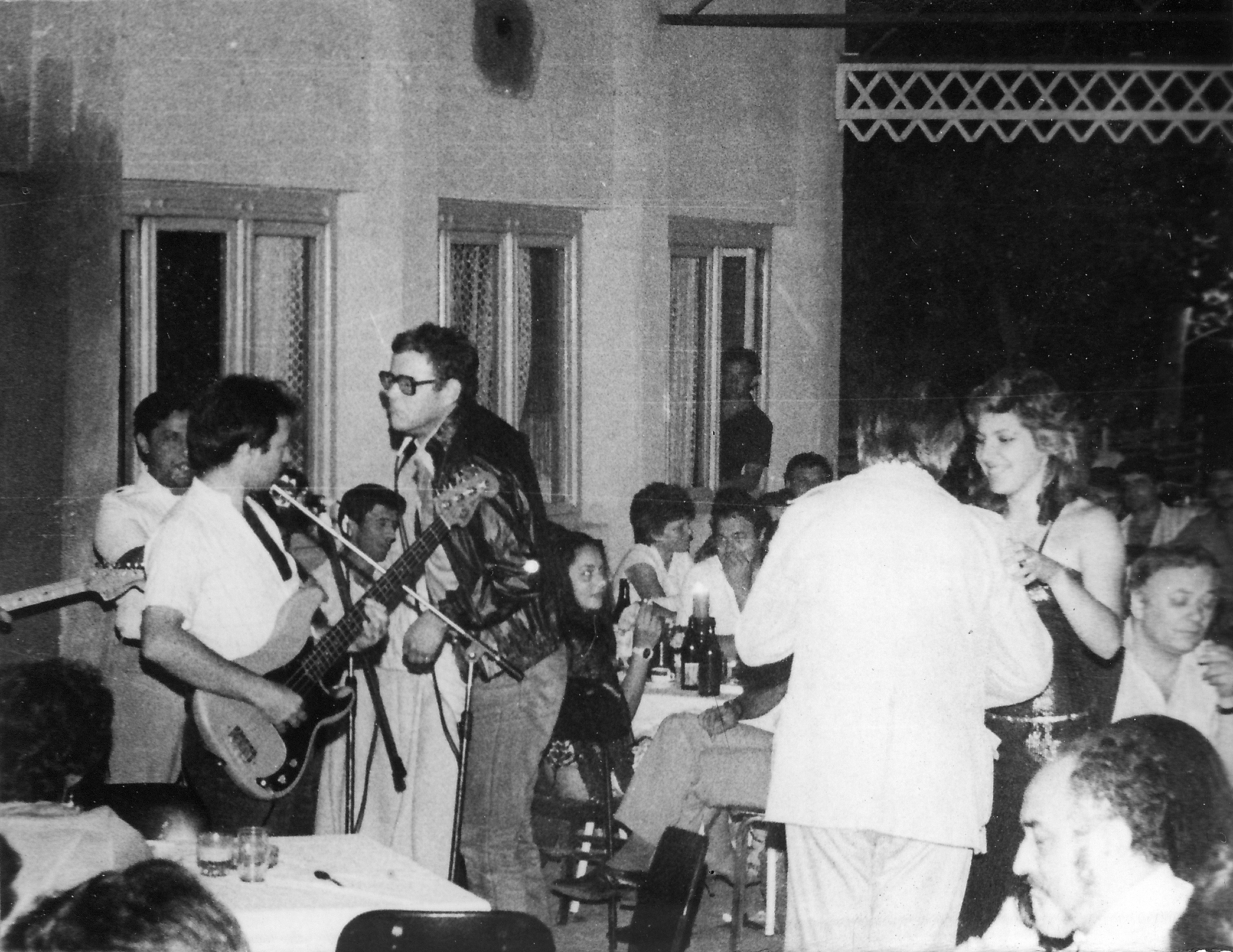 Leo Martin in Niš (Serbia), early 80's